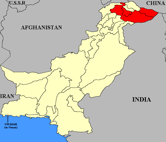 Approximate location of the former Gilgit Agency within Pakistan